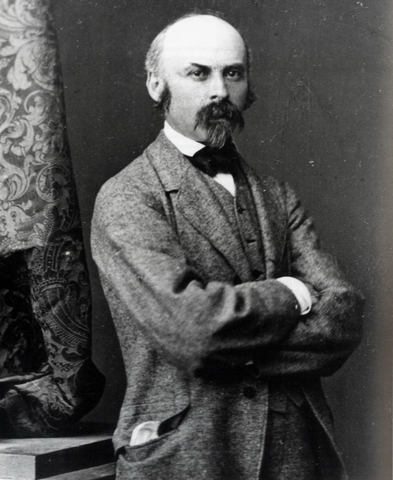 The Belgian painter and art historian Jules Helbig (1821-1906).